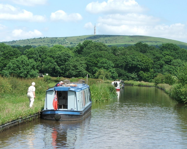 Below Bosley Locks, Macclesfield Canal The bottom lock can just be seen to the left. The transmitter on Sutton Common (or Croker Hill) is over 3km away. SJ9367